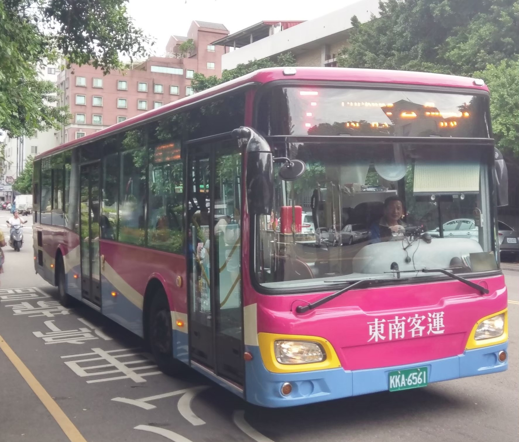 Hino HS8JRVL-UTF bus KKA-6561 of Southeast Bus at Taichung Municipal Taichung First Senior High School.